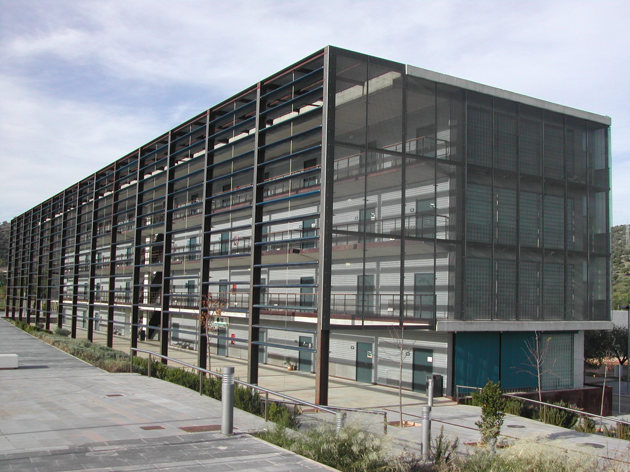 Parc Bit builiding Place Lloc/Place: Parc Bit